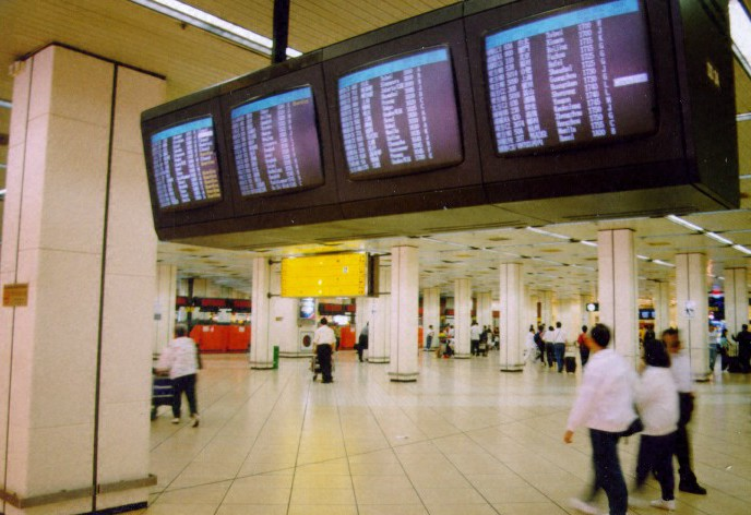 Flight Information Terminal of Hong Kong Kai Tak (Closed)